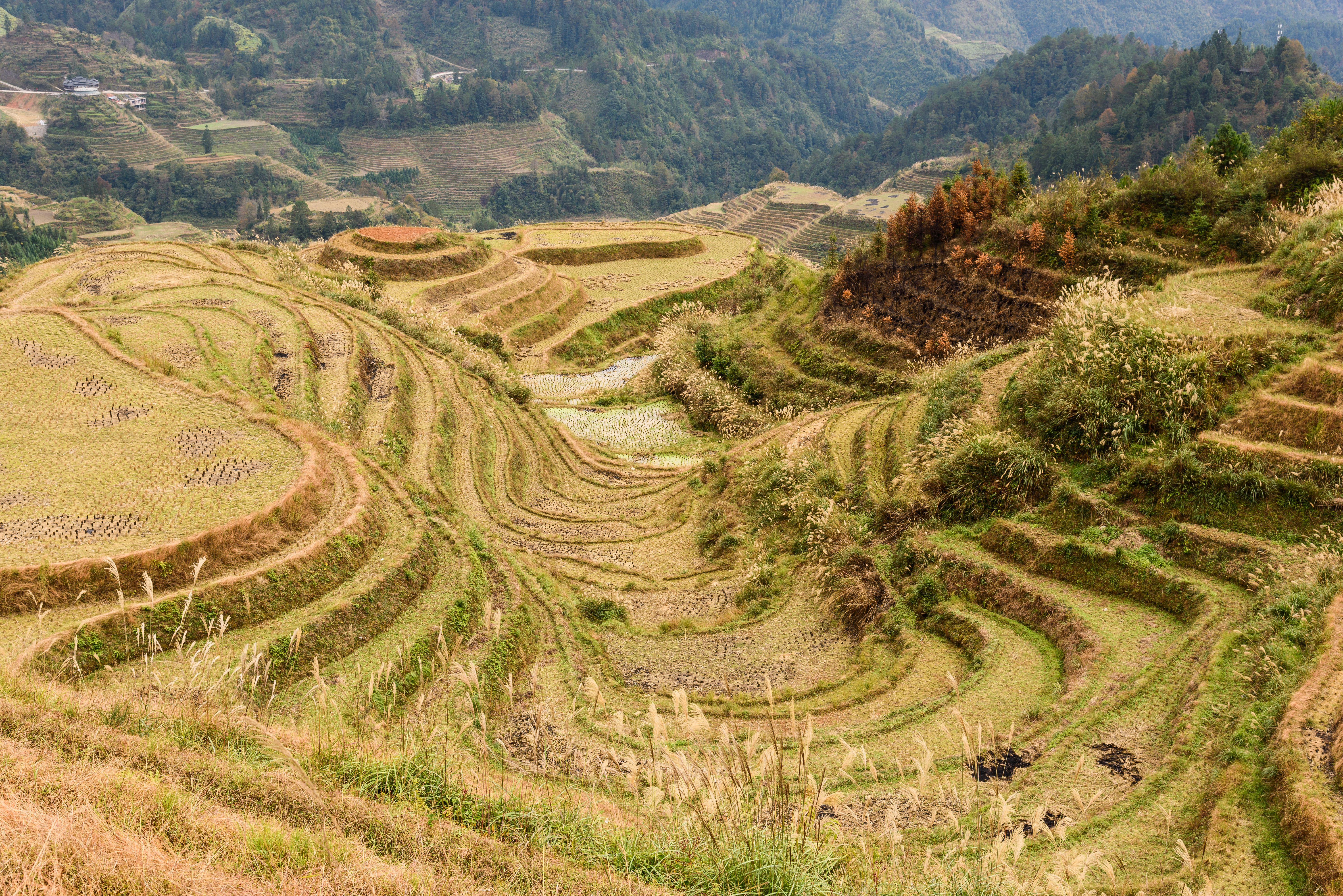 Longsheng Rice Terraces, Longsheng County, Guangxi, China.